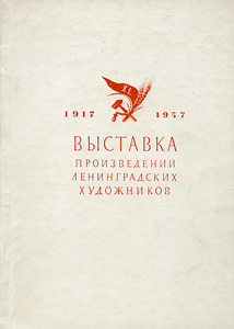 Cover of the catalog of Exhibition of works by Leningrad artists of 1957